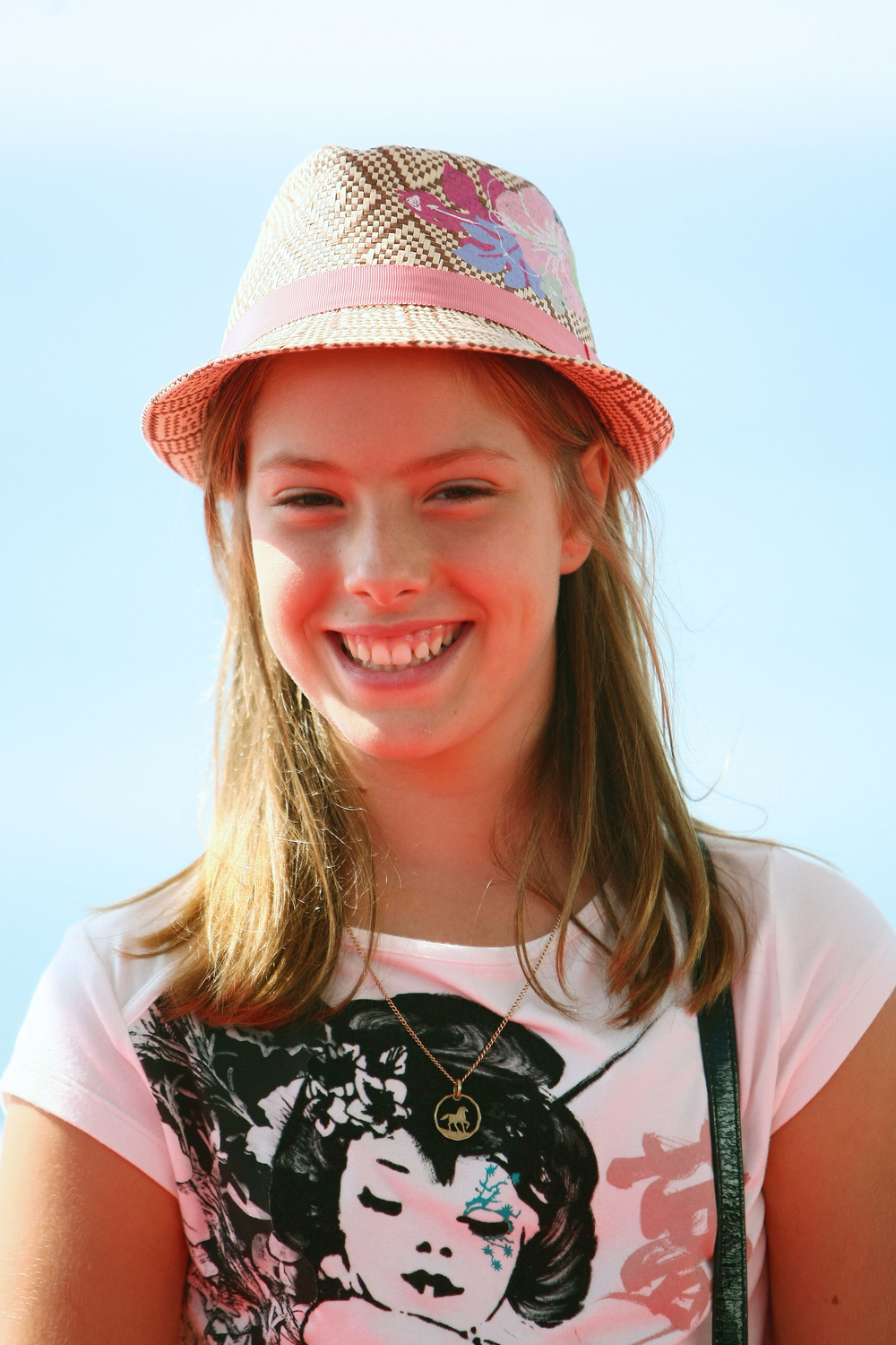 Claudia Vega. Eva. Sitges Film Festival 2011.